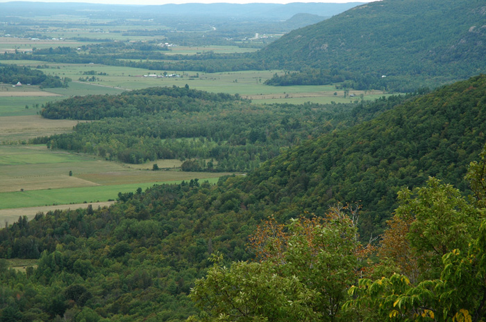 Wilder Mendez